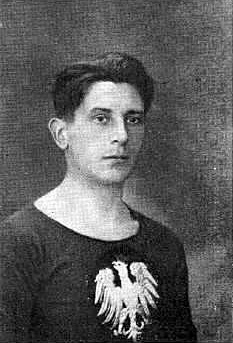 Józef Garbień, polish football player (about 1925)